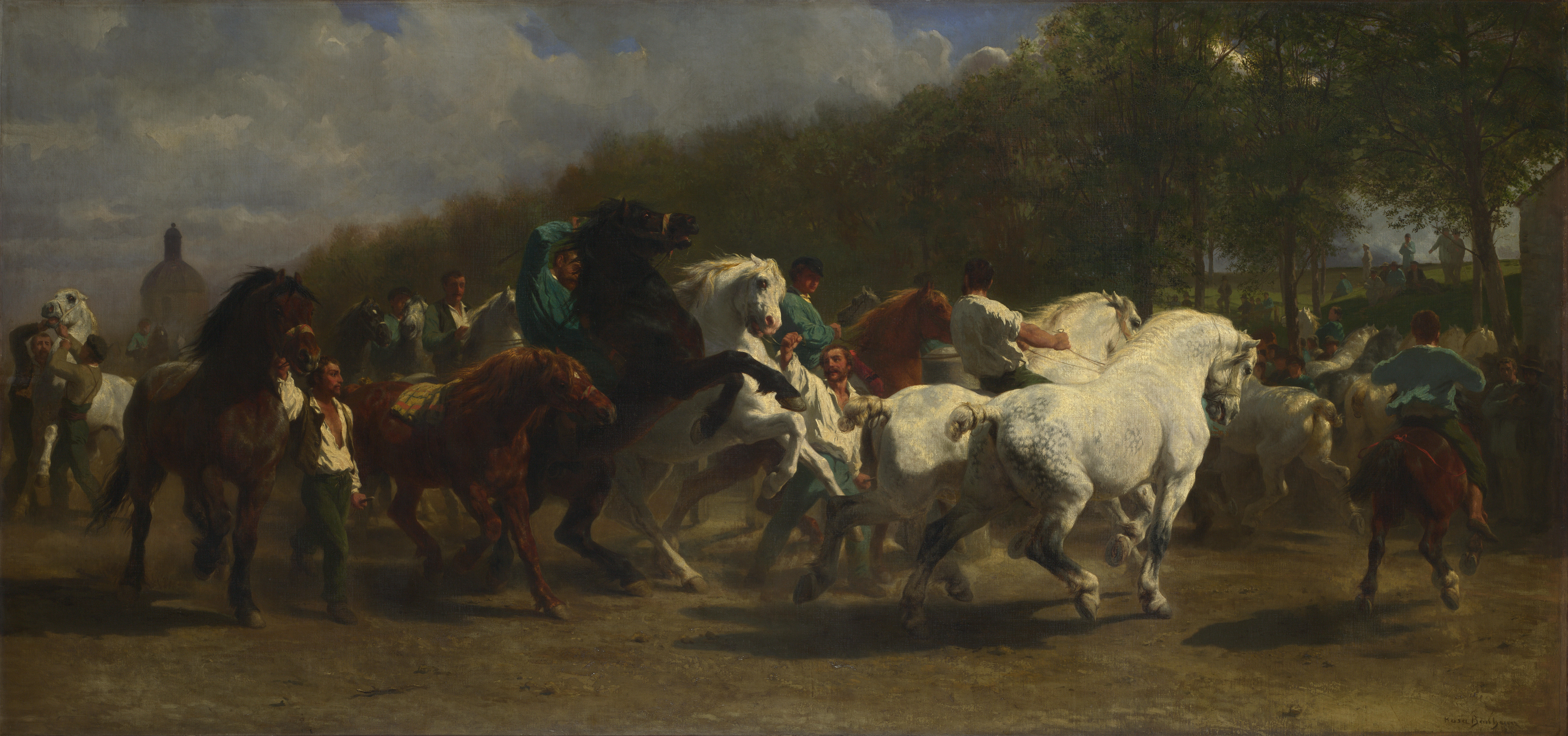 The scene is the horse market in Paris, and the dome of La Salpêtrière is visible in the background. This is a reduced version of Bonheur's original 'Horse Fair', exhibited at the Salon of 1853 (New York, Metropolitan Museum). Although finished and signed by Bonheur, this painting was begun by the artist's life-long friend, Nathalie Micas. The dealer Ernest Gambart acquired it in 1855, and it was engraved by Thomas Landseer.